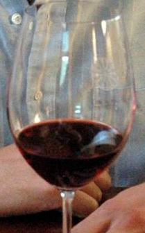 Image of a glass of Refosco wine from the Friuli-Venezia Giulia region. Cropped image of photo taken by My hobo soul. Uploaded to Flickr with an attribution 2.0 license on July 31st, 2007.